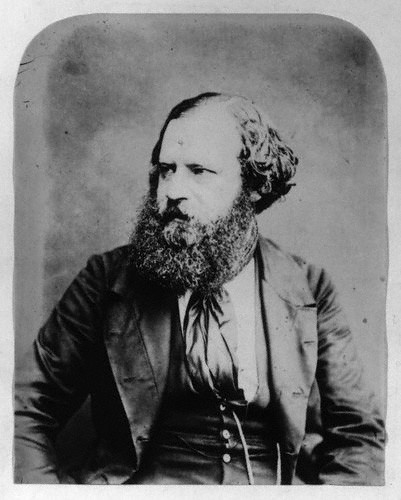 Albert Richard Smith (1816-1860)